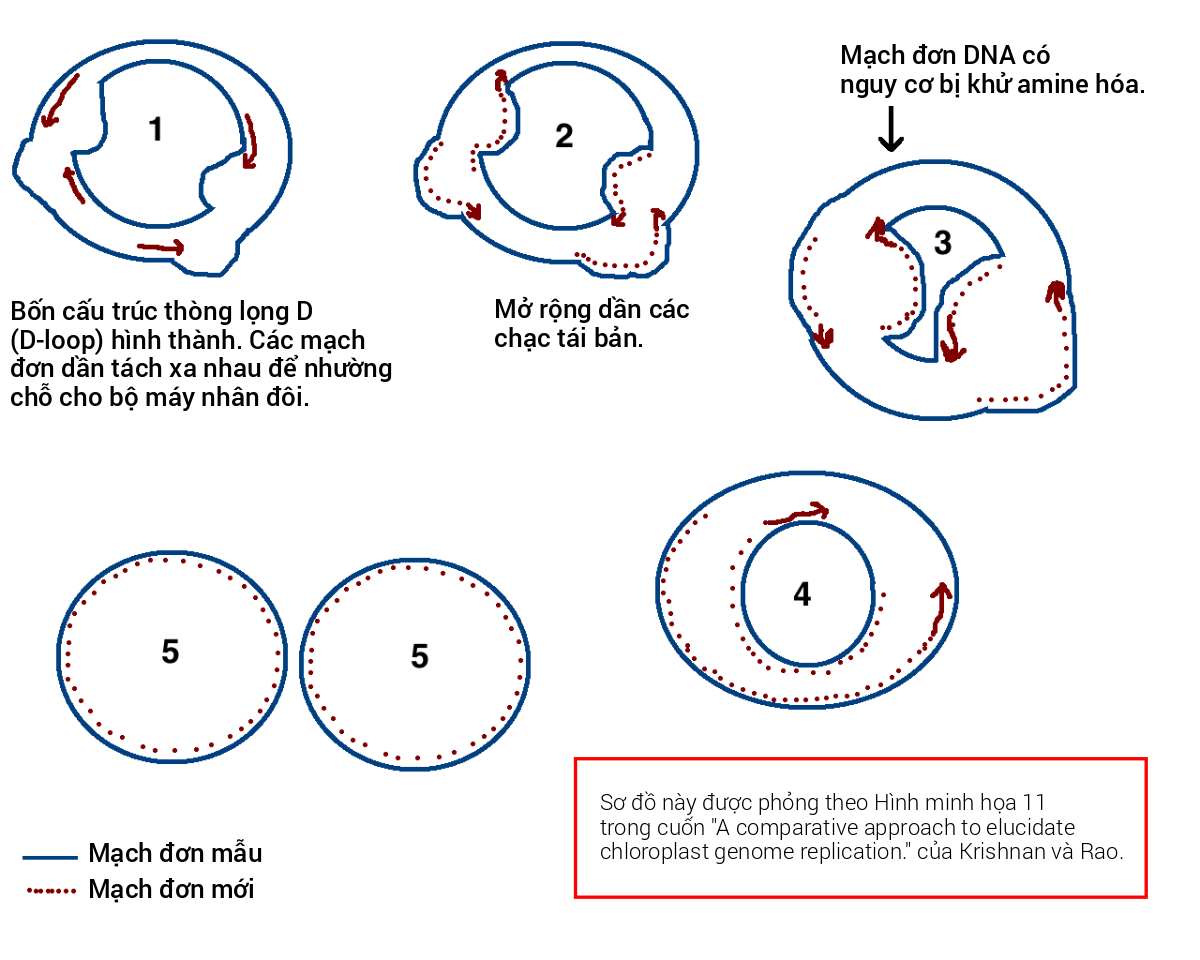 Vietnamese translation of CpDNA_Replication.png, author Krishnan NM, Rao BJ.